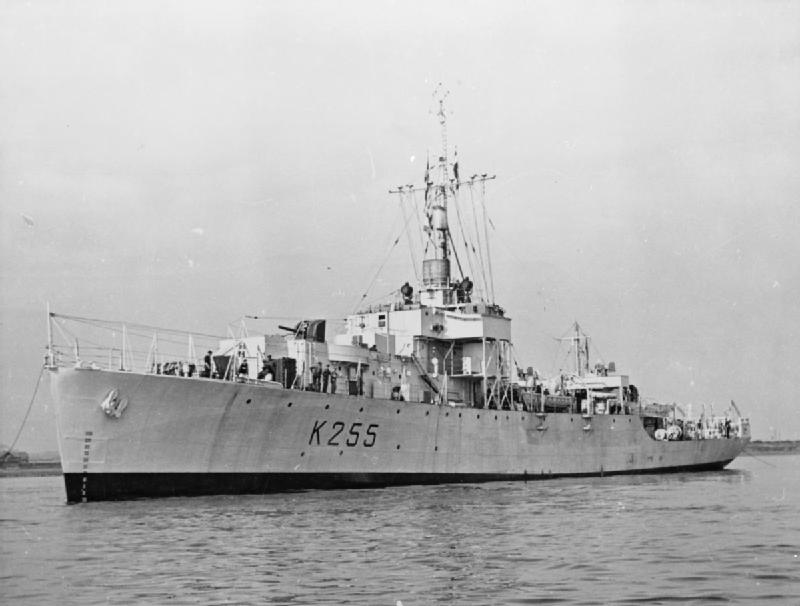 Photograph of River class frigate HMS Ballinderry.